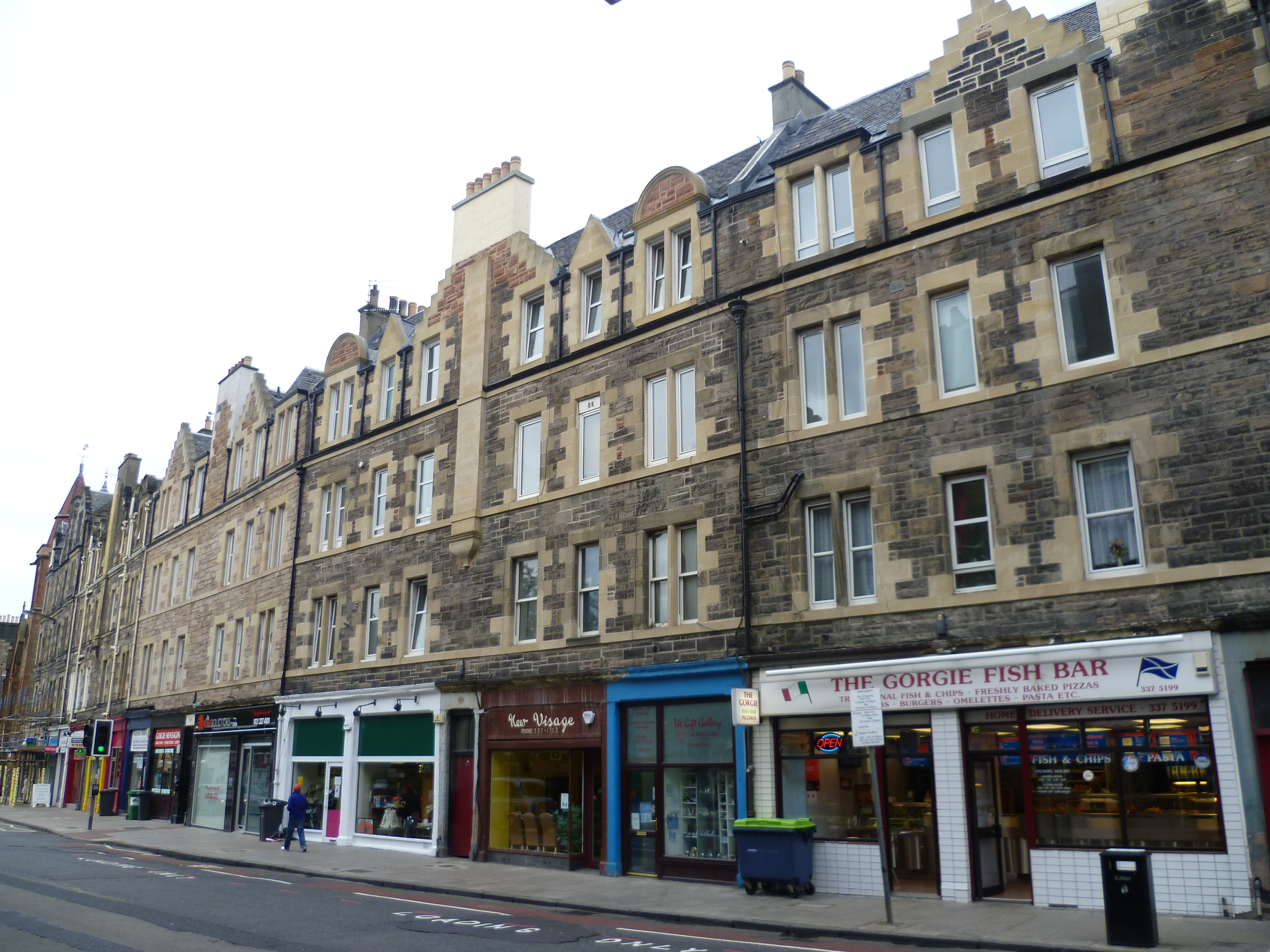 Gorgie Road tenements, Edinburgh